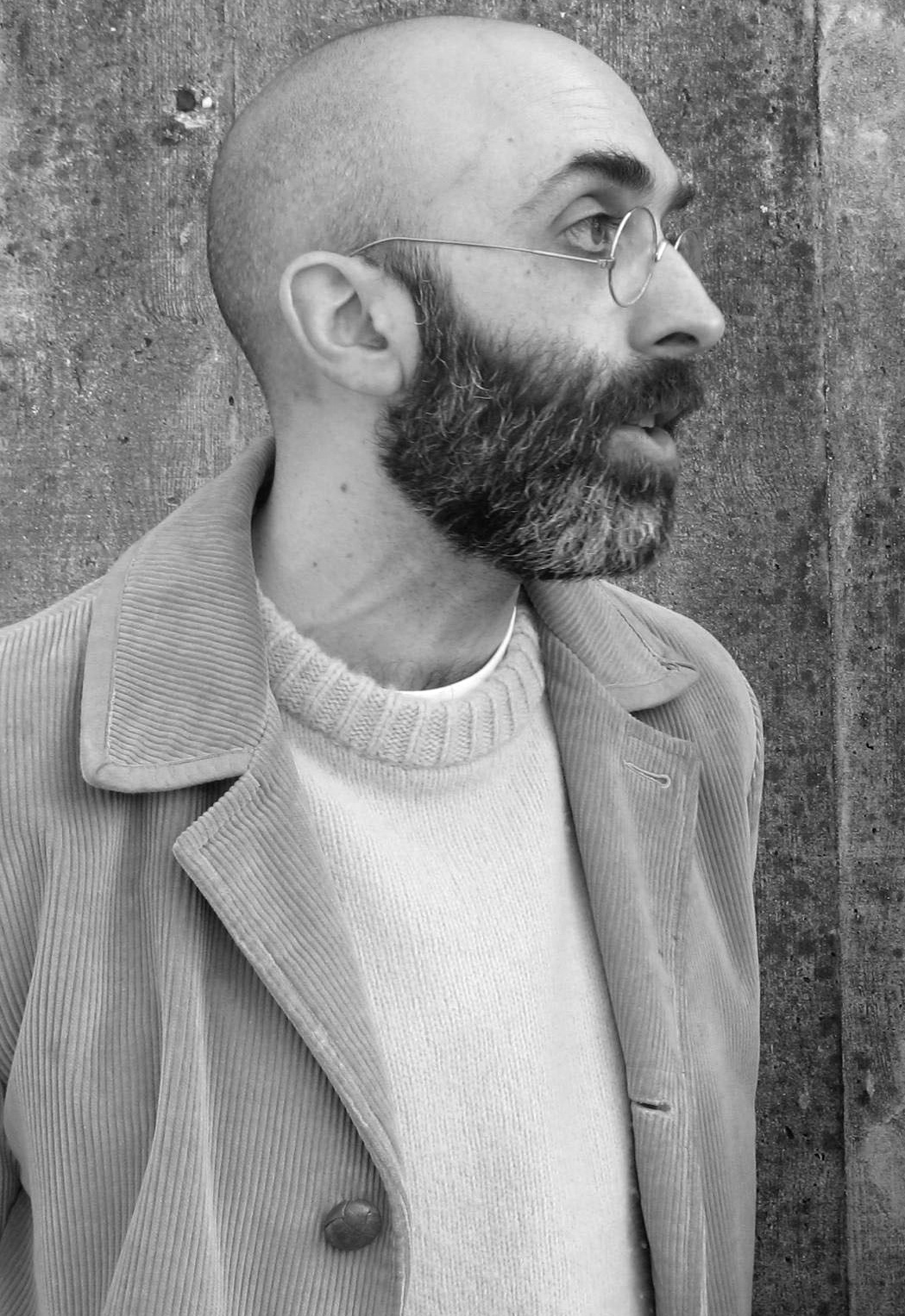 Writer Eduardo Halfon